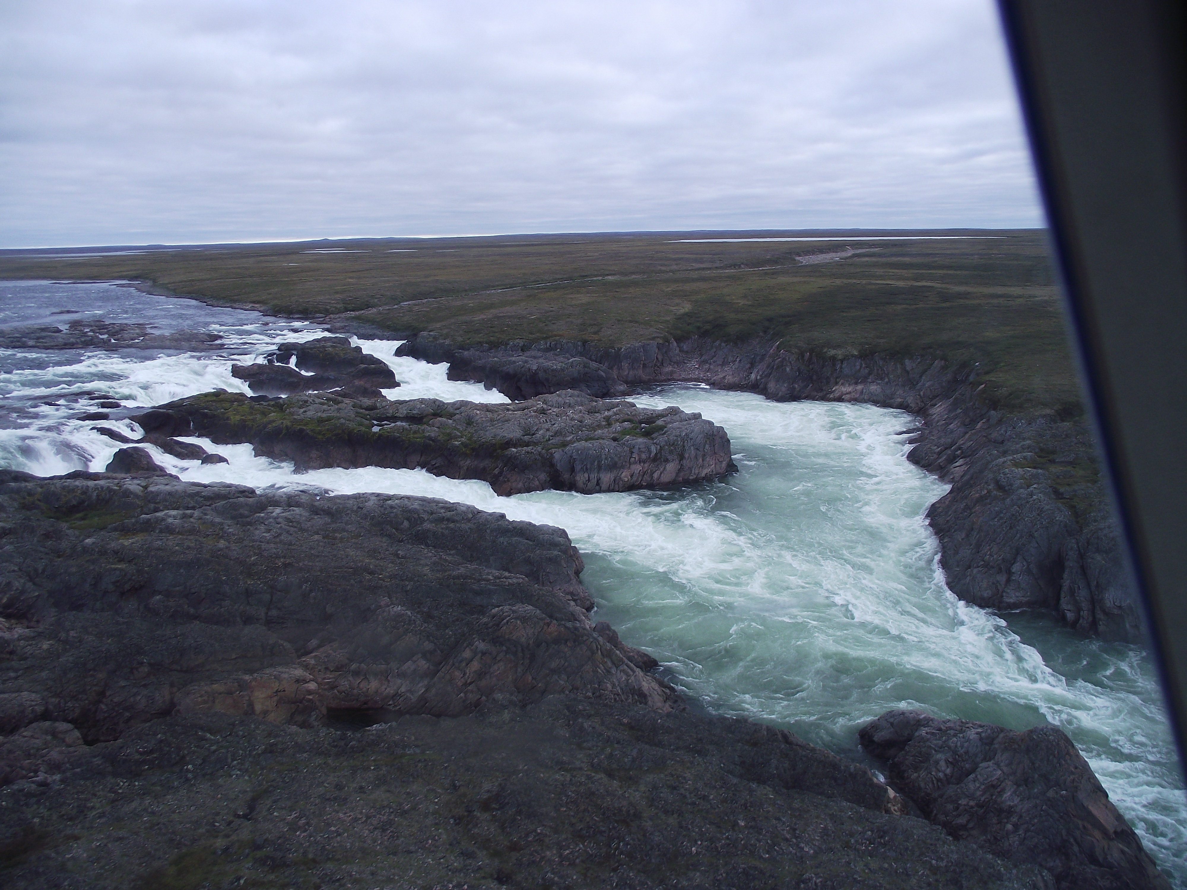 View of the Kazan Falls in Nunavut, Canada, from a helicopter